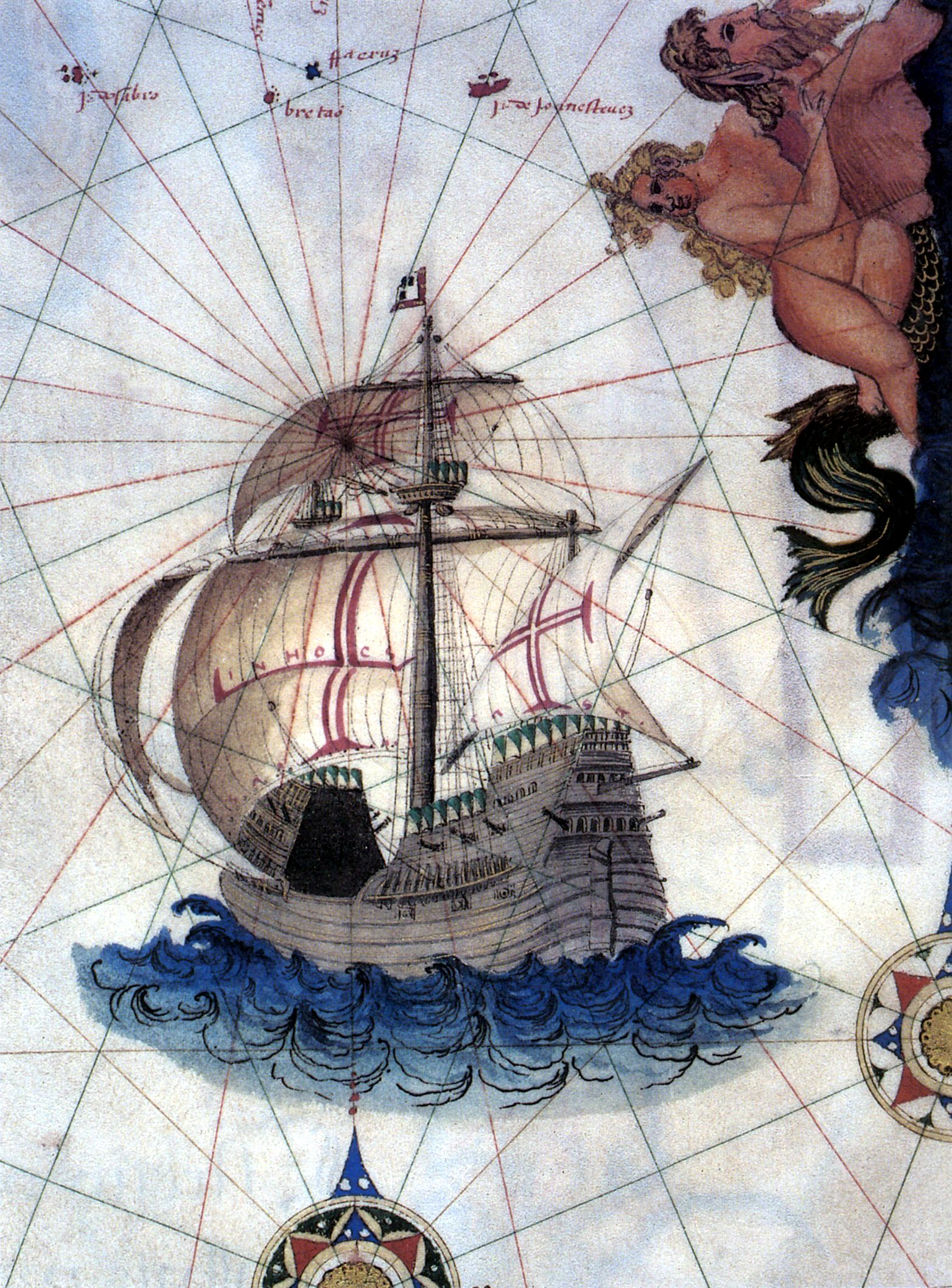 A Portuguese nau (carrack) as depicted in a map made in 1565. Also available in the digital library of the University of Minnesoata (ID: 1043494).[1]